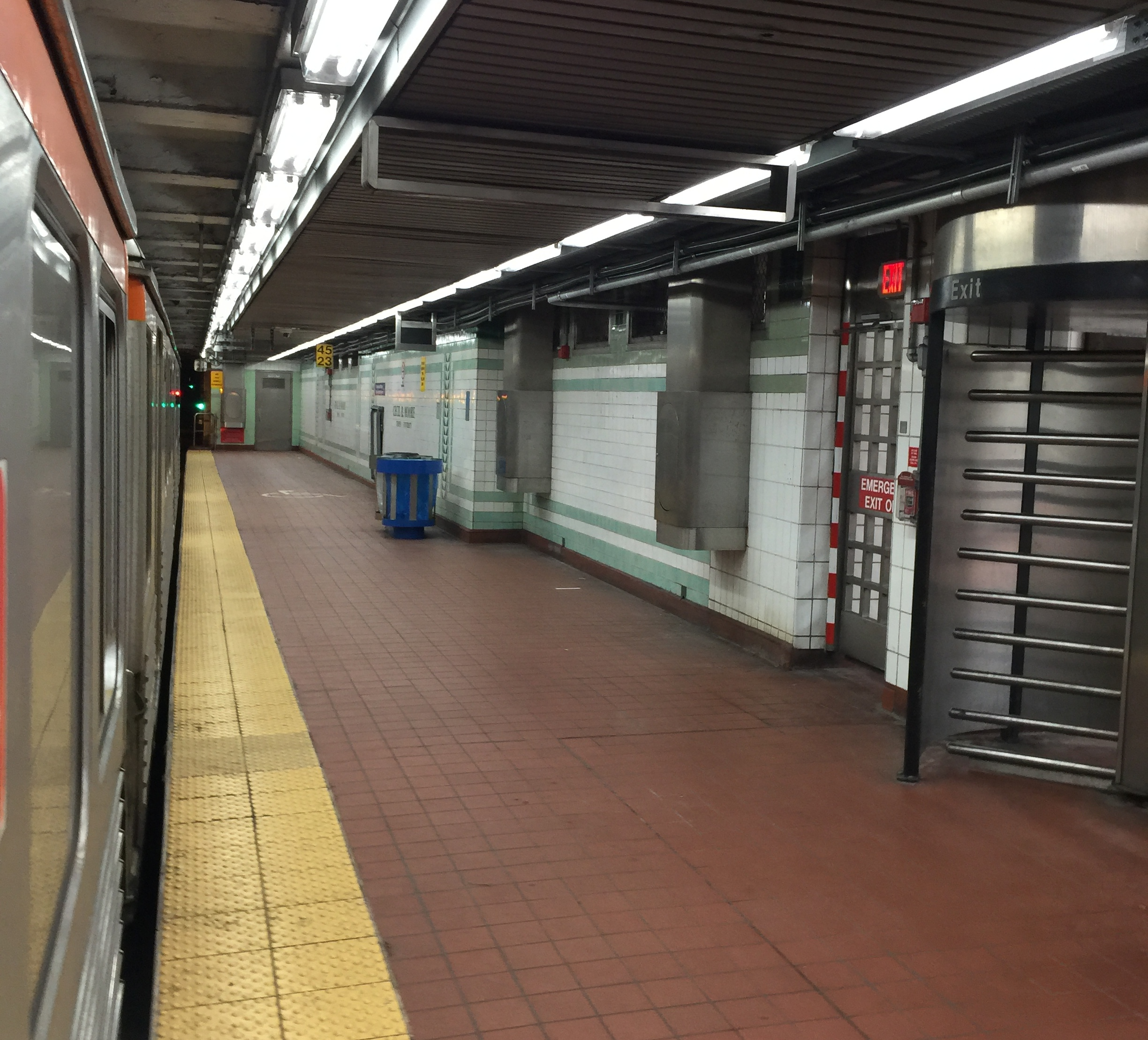 Originally uploaded as local file Cecil B Moore BSL SEPTA 2018a.jpg